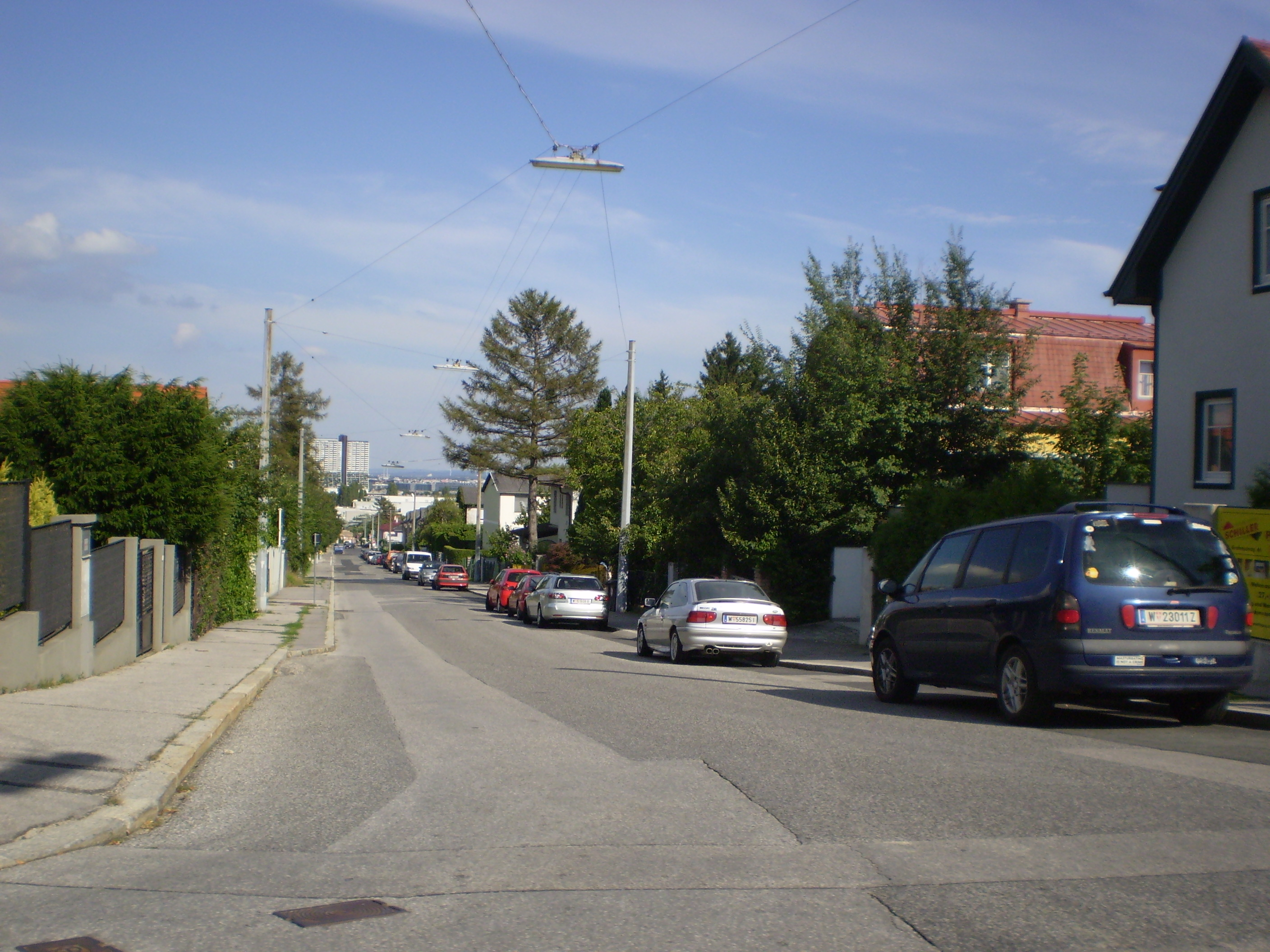 View from Steinberg to the east, through Endemanngasse in Atzgersdorf, Vienna.